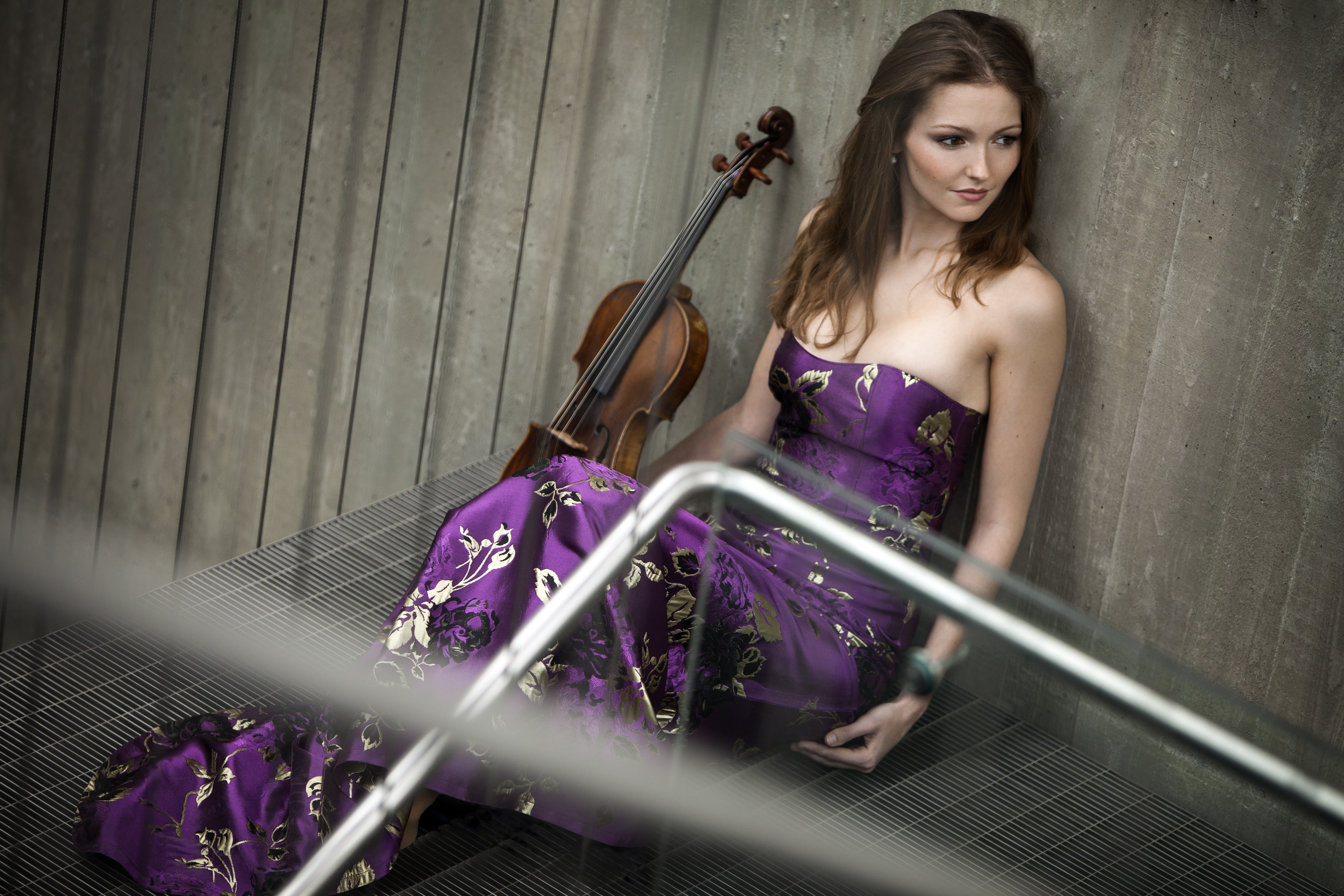 PR photo of czech violist Kristina Fialová